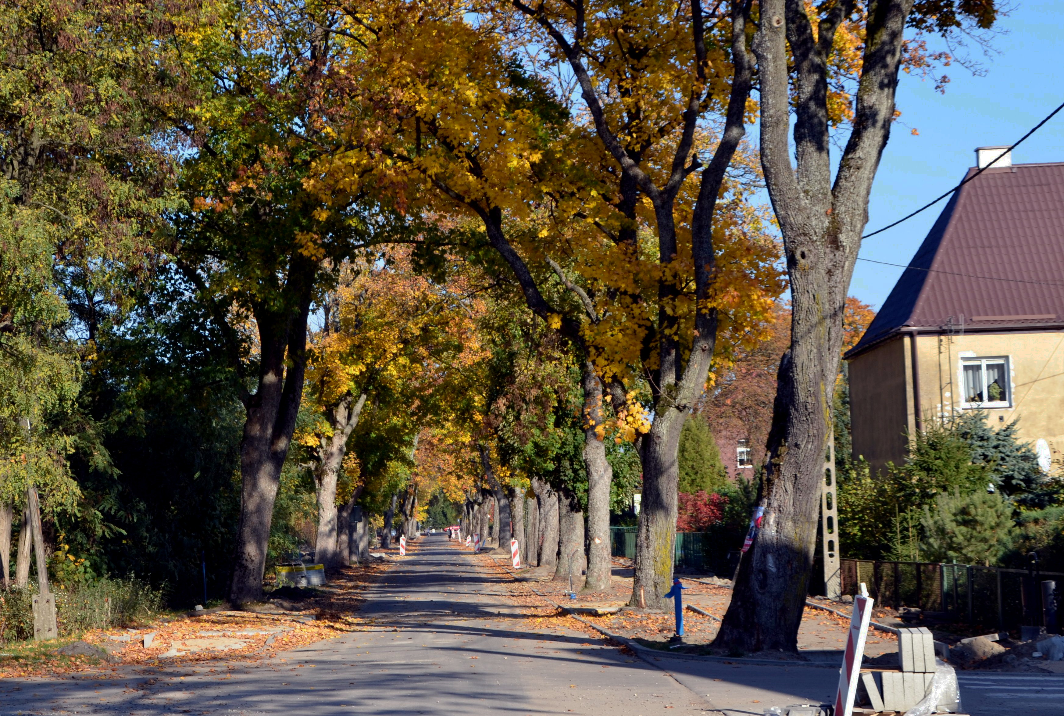 Korzybie (Zollbrück), Pomerania, Poland